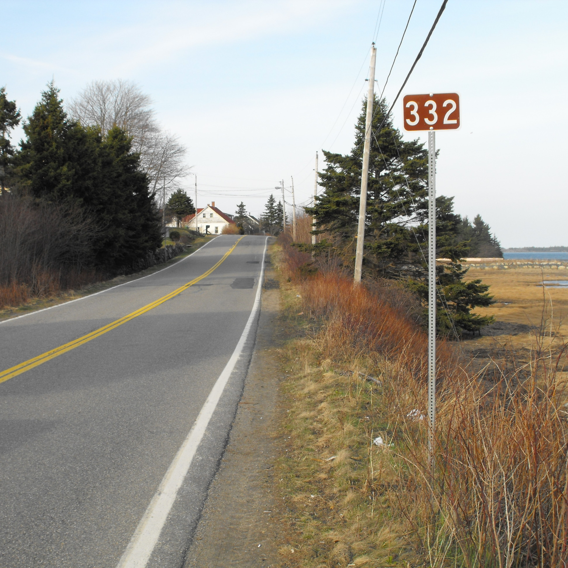 Roadside, Nova Scotia Route 332 near Rose Bay, Lunenburg County